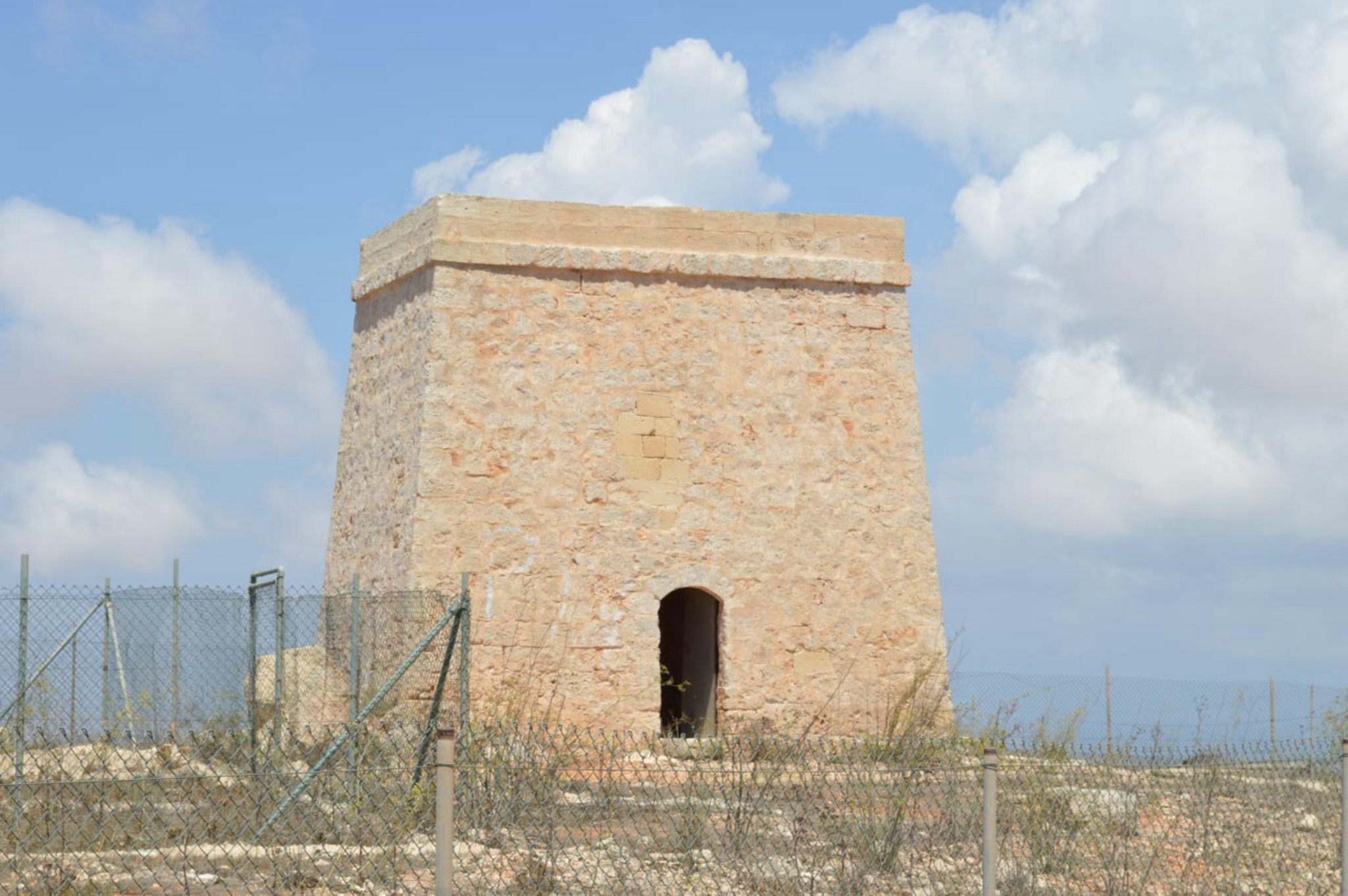 Nadur Tower and fence